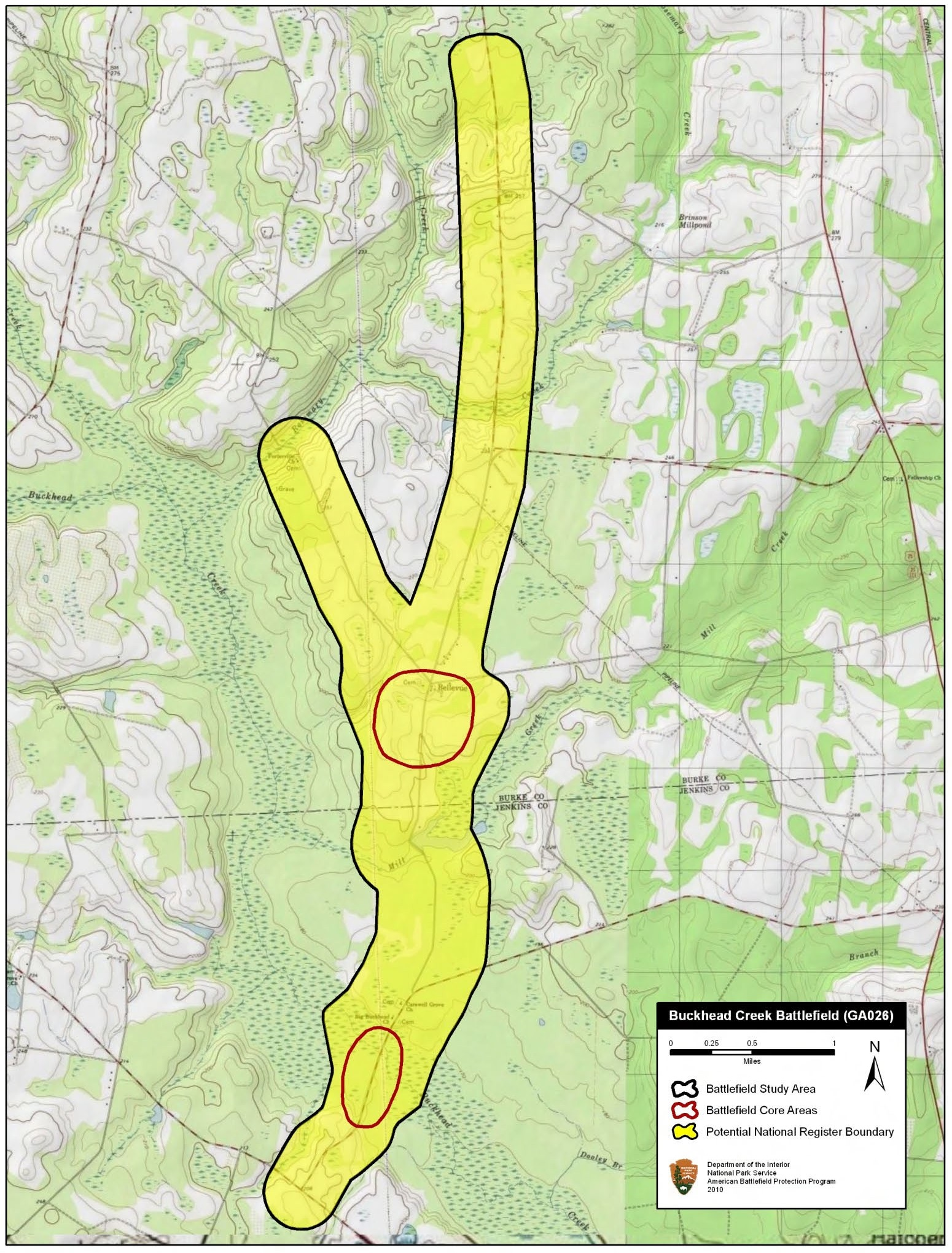 Map of battlefield core and study areas. The ABPP revised the 1993 Study Area and Core Area boundaries. A Core Area was added to represent the primary fighting at Reynold’s Plantation, a few miles north of Buck Head Creek. The Core Area delineated in 1993 represented the fighting at the creek itself, a tactically important holding action but one that was secondary to the fight at Reynold’s Plantation. The ABPP expanded the northern portion of the Study Area to include the new Core Area and to represent the Federal withdrawal. Kilpatrick withdrew in order to put distance between his force and the Confederate cavalry he believed was in pursuit.